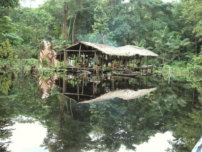 This picture of a "palafito" will help readers to understand what it is. I am from Venezuela and always explain my students the origin of the name. That is why I thought to be important.